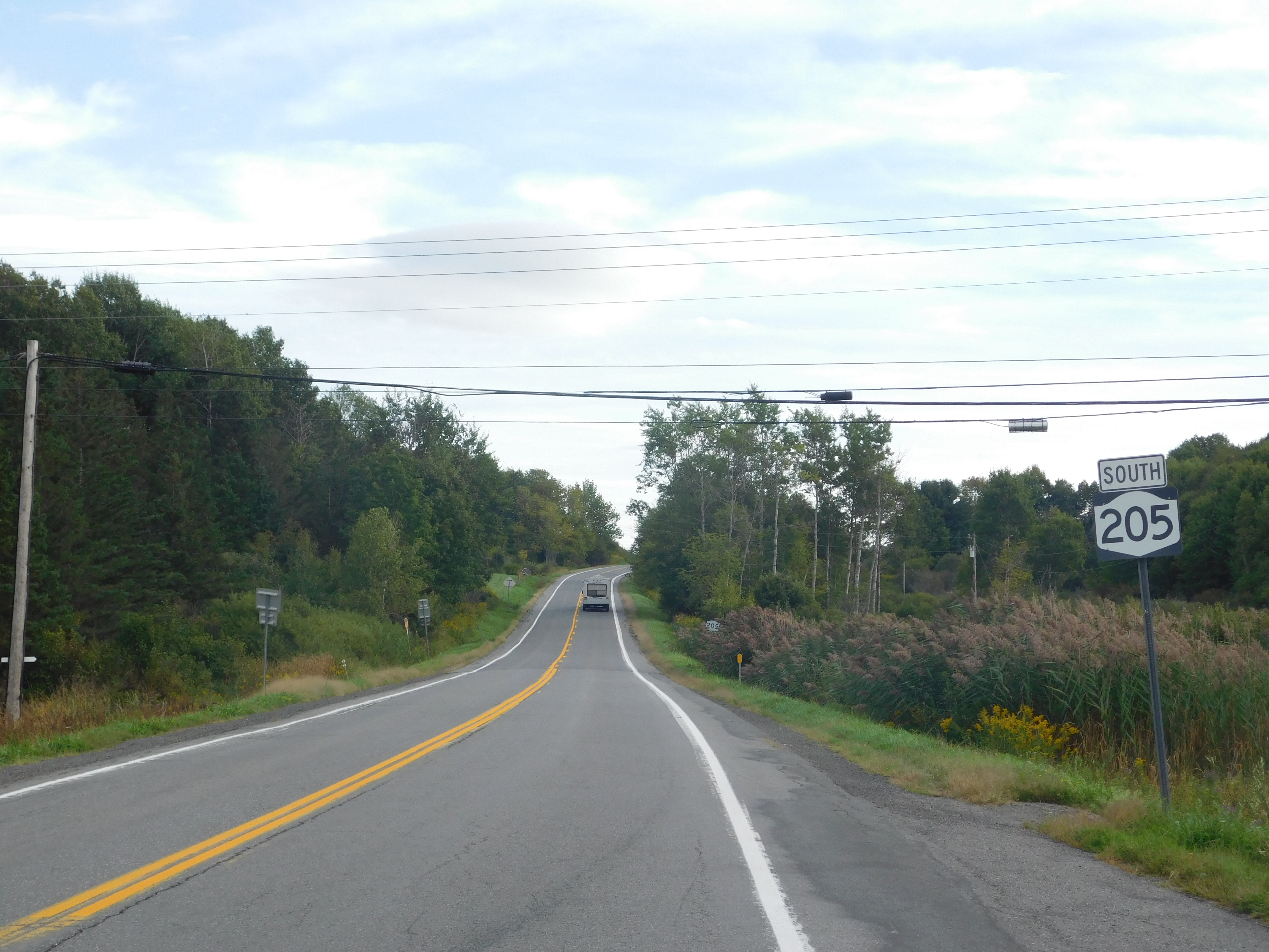 New York State Route 205 southbound from New York State Route 80.